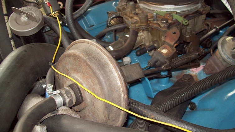 pneumatic cruise control actator